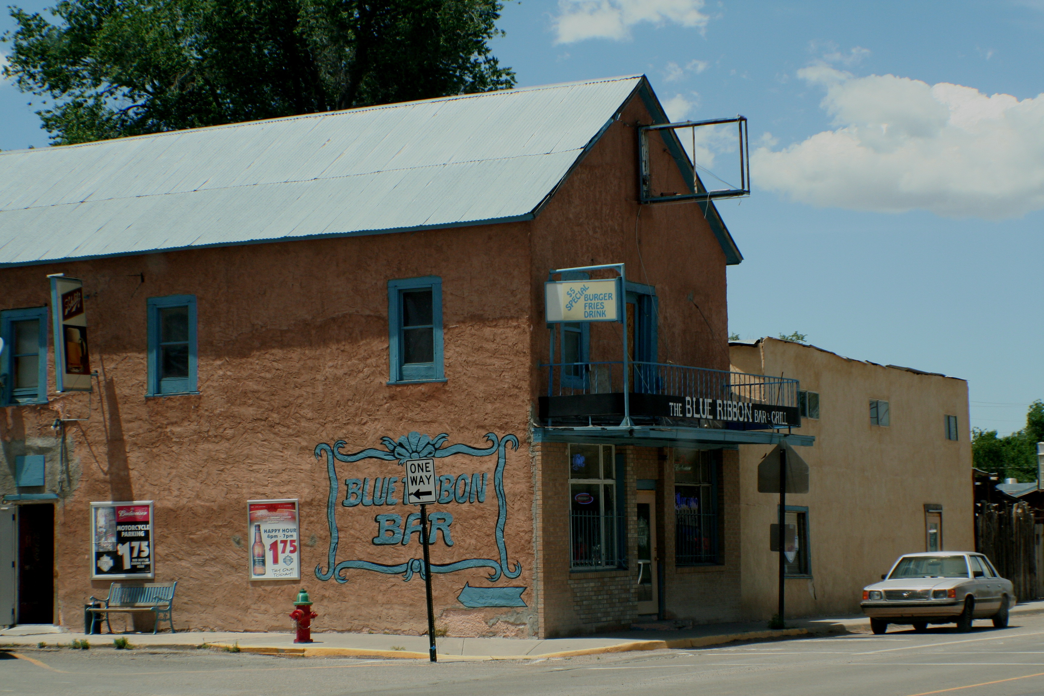 Saloon and Restaurant in Estancia, New Mexico